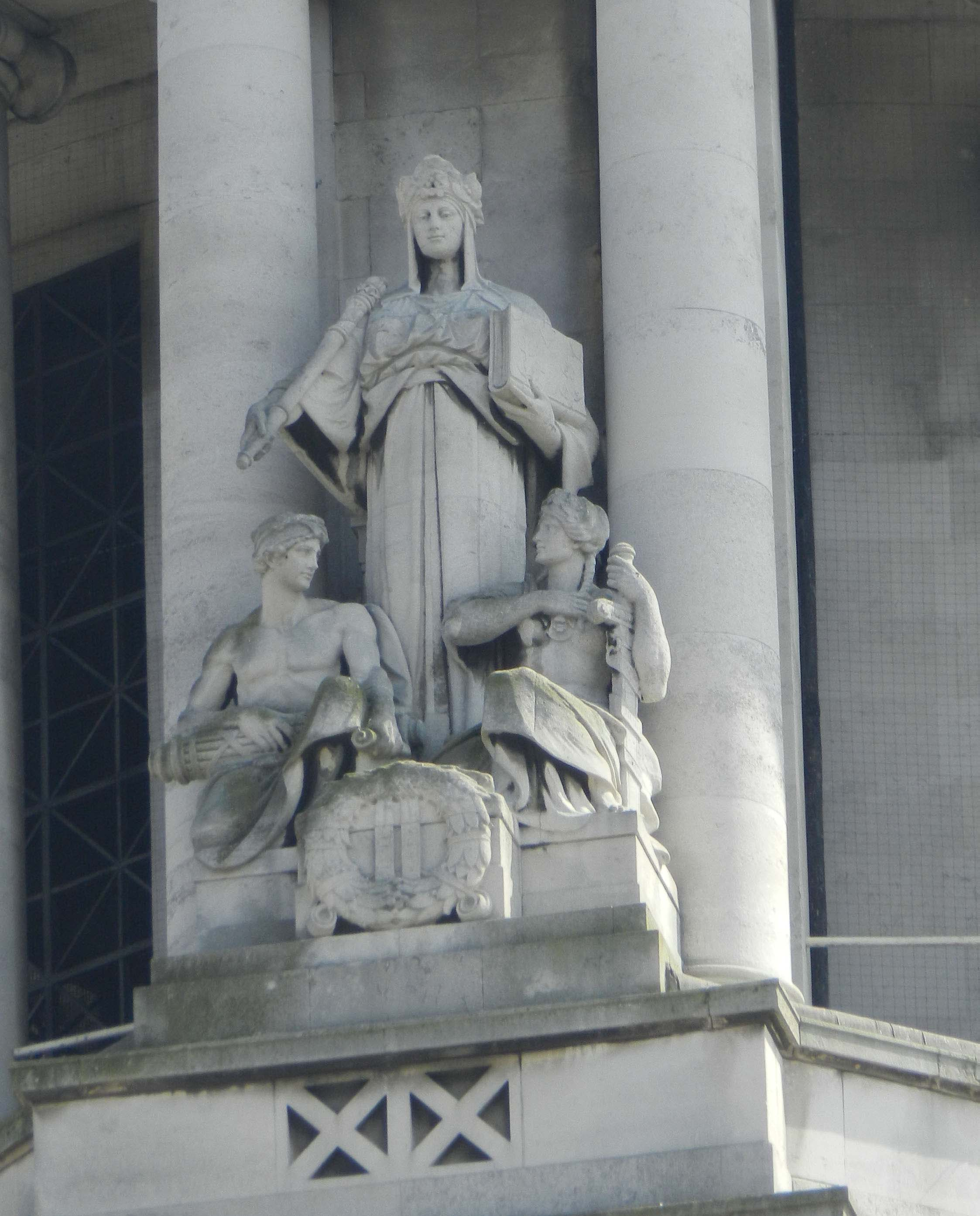 detail of statue, Nottingham Council House, 1929